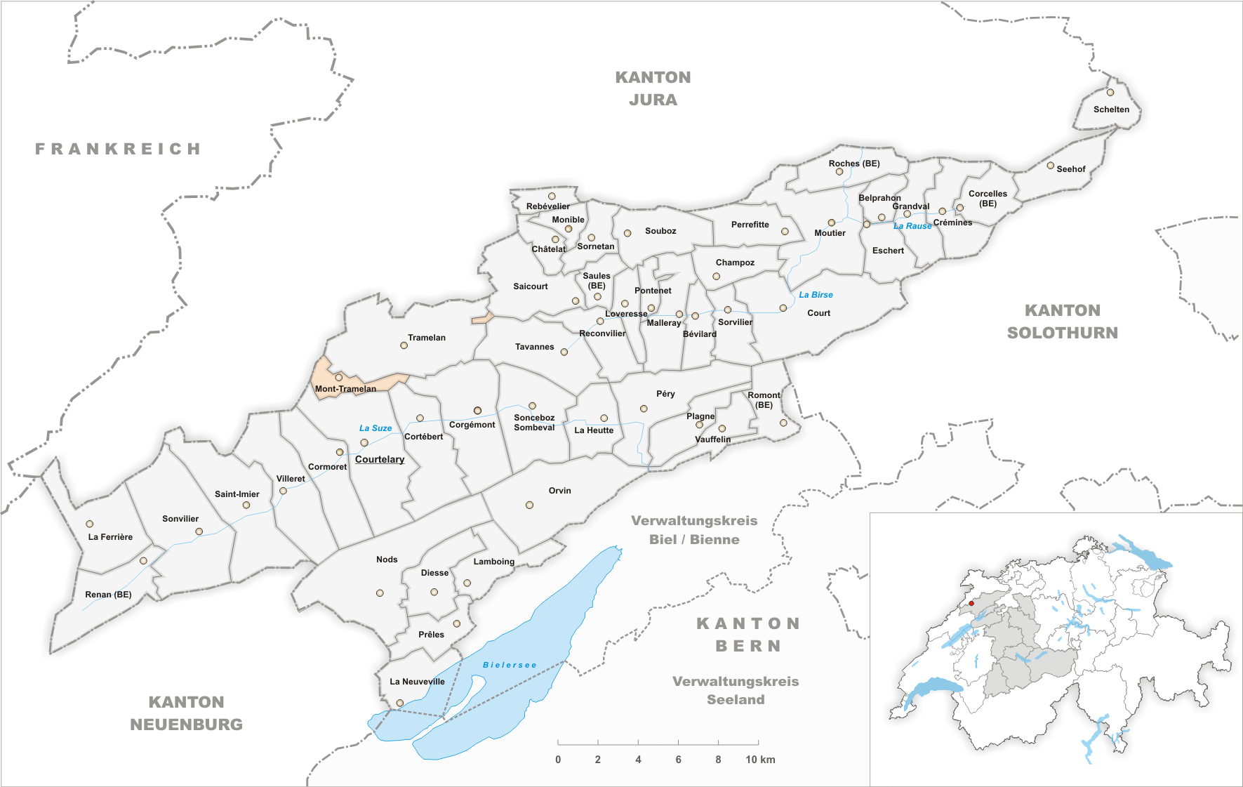 Municipality Mont-Tramelan